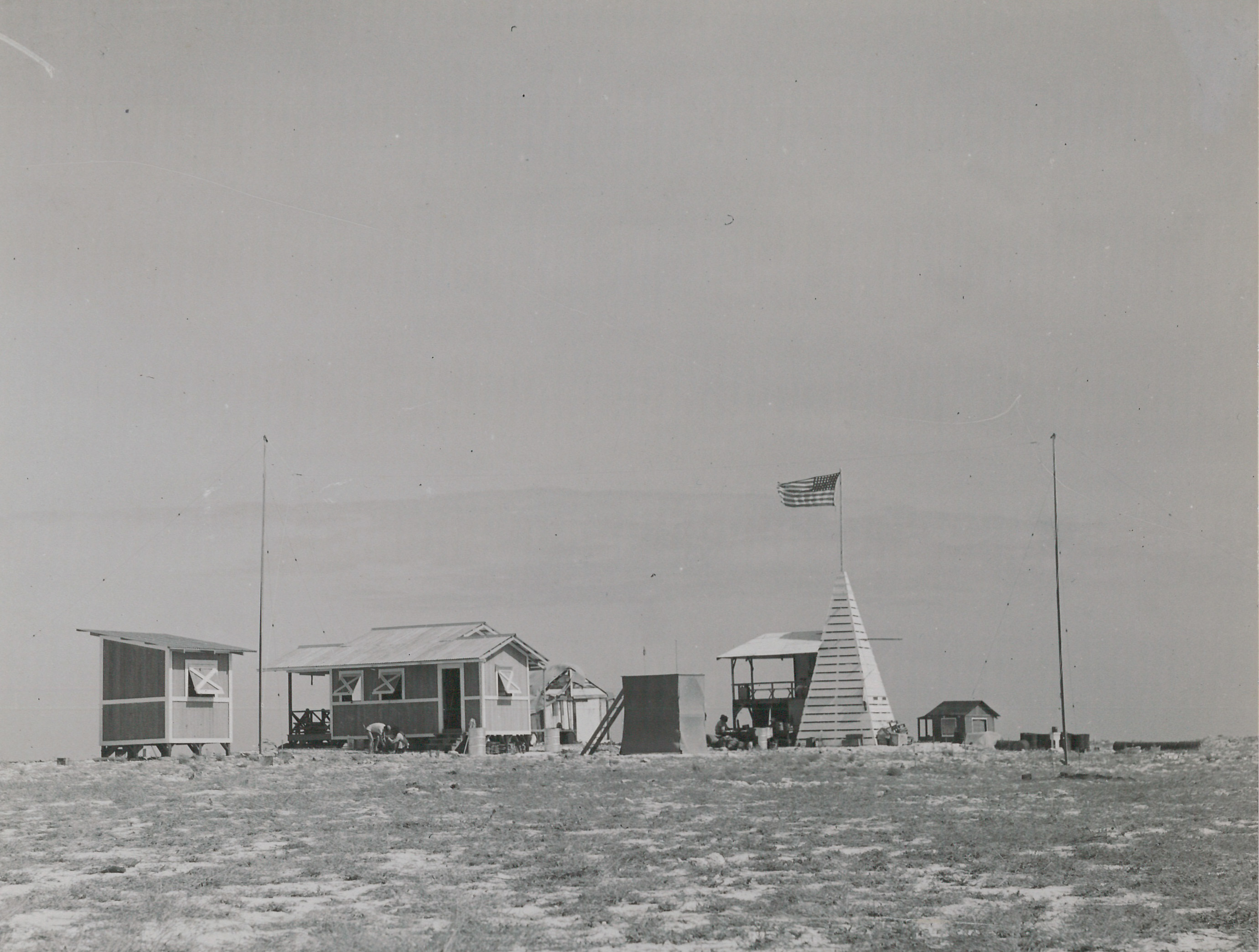 Camp at Jarvis Island during the American Equatorial Islands Colonization Project.